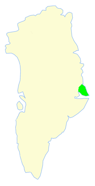 Map showing the position of the Jameson Land in Greenland.